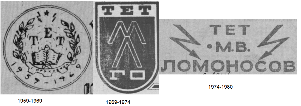 Symols